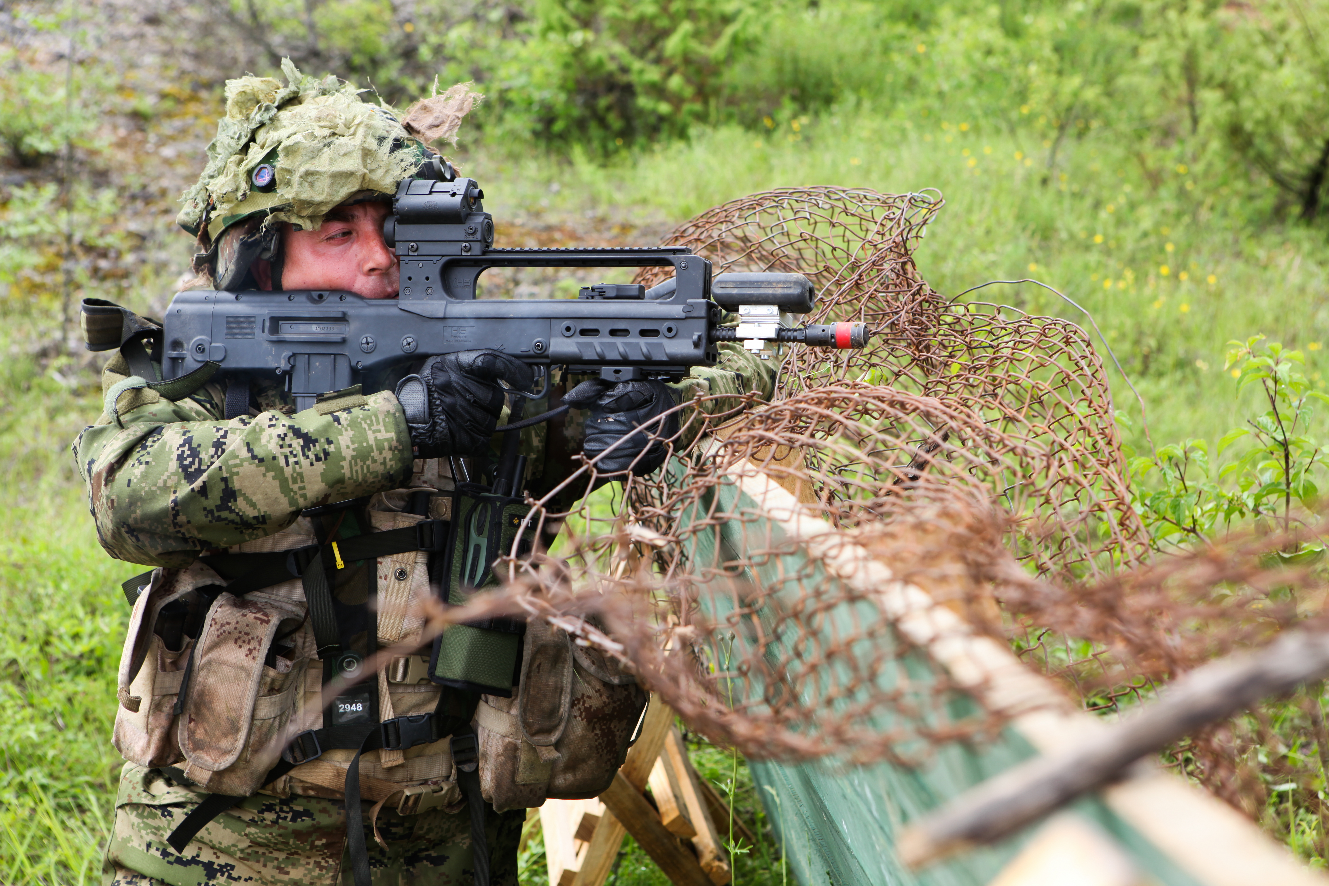 A Croatian soldier from 1st platoon., looks for the opposing force table during the Immediate Response 2012 (IR12) training event held in Slunj, Croatia on June 5, 2012. IR12 is a multinational tactical field training exercise that will involve more than 700 personnel primarily from the U.S. Army Europe’s 2nd Cavalry Regiment and Croatian armed forces, with contingents from Albania, Bosnia-Herzegovina, Montenegro and Slovenia. Macedonia and Serbia will send observers to the exercise. The exercise is a part of USEUCOM's joint training and exercise program designed to enhance joint and combined interoperability between the U.S. Army, U.S. Air Force, Croatian Armed Forces and partner nations, and will help prepare participants to operate successfully in a joint, multinational, interagency, integrated environment. ( U.S. Army photo by PFC. Andre Forrest/ Released )